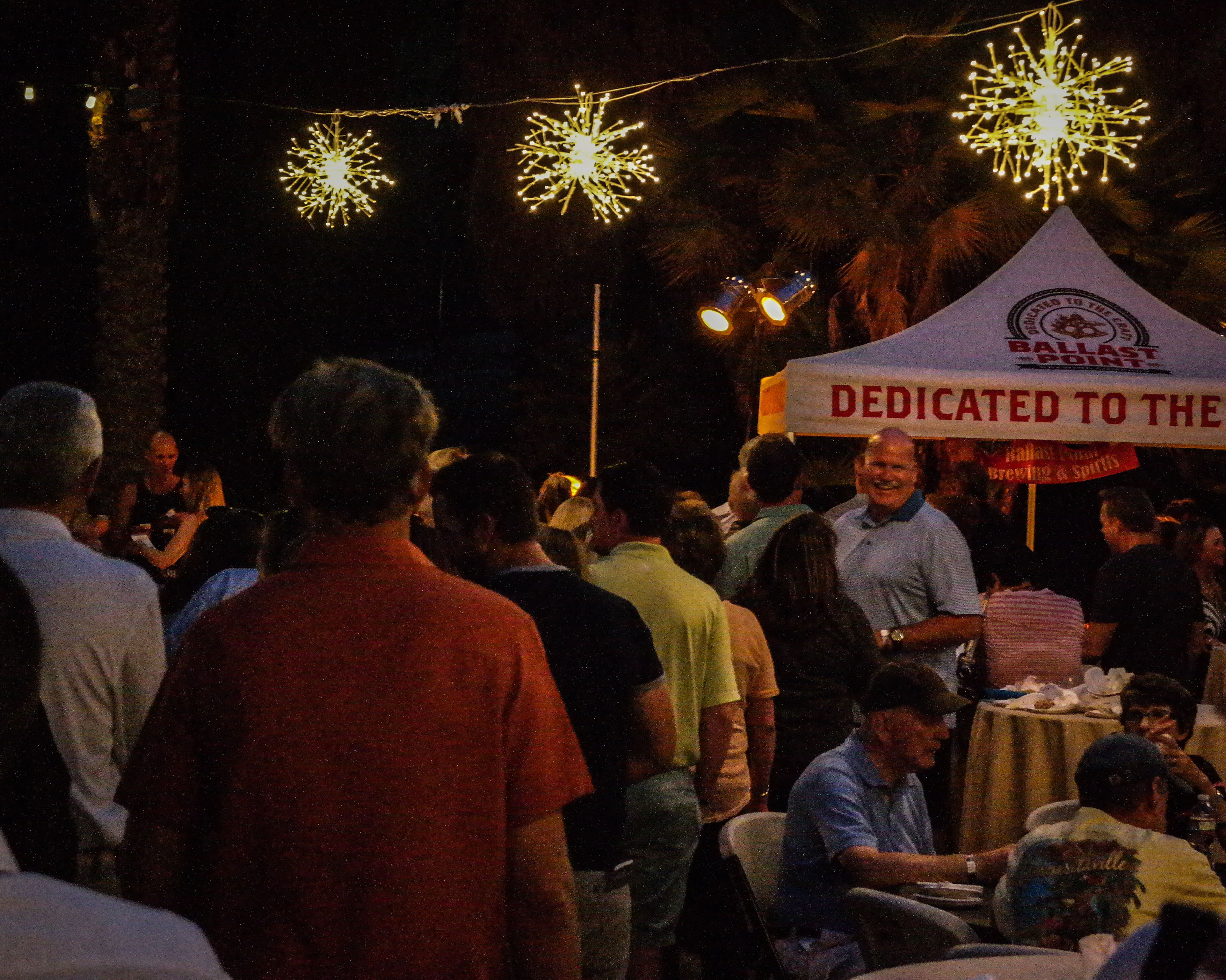 Brew at the Zoo is an annual fundraising event for the Living Desert in Palm Desert, California